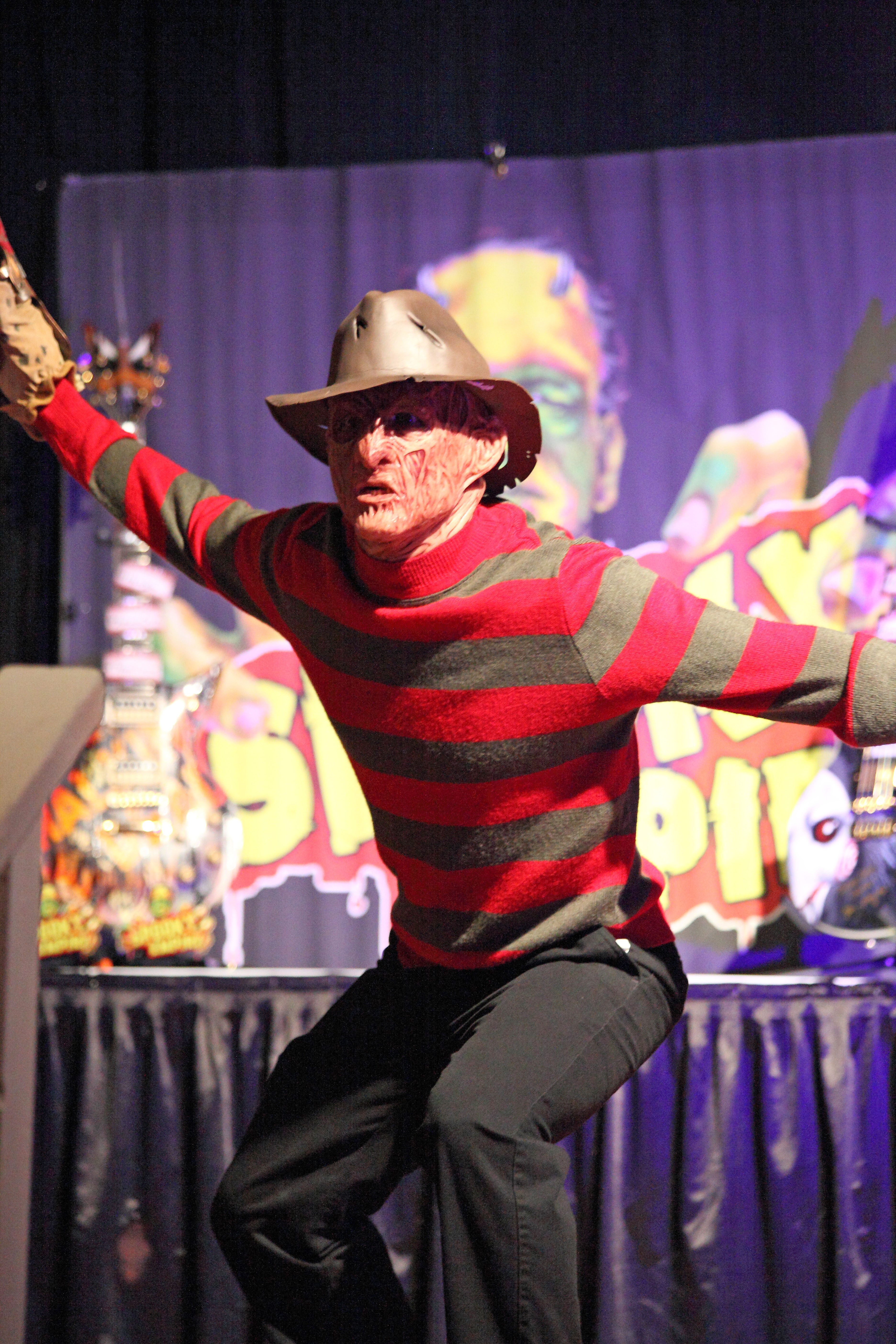 Freddy Krueger as seen during costume contest at Spooky Empire Ultimate Horror Weekend 2014 in Orlando, Florida.